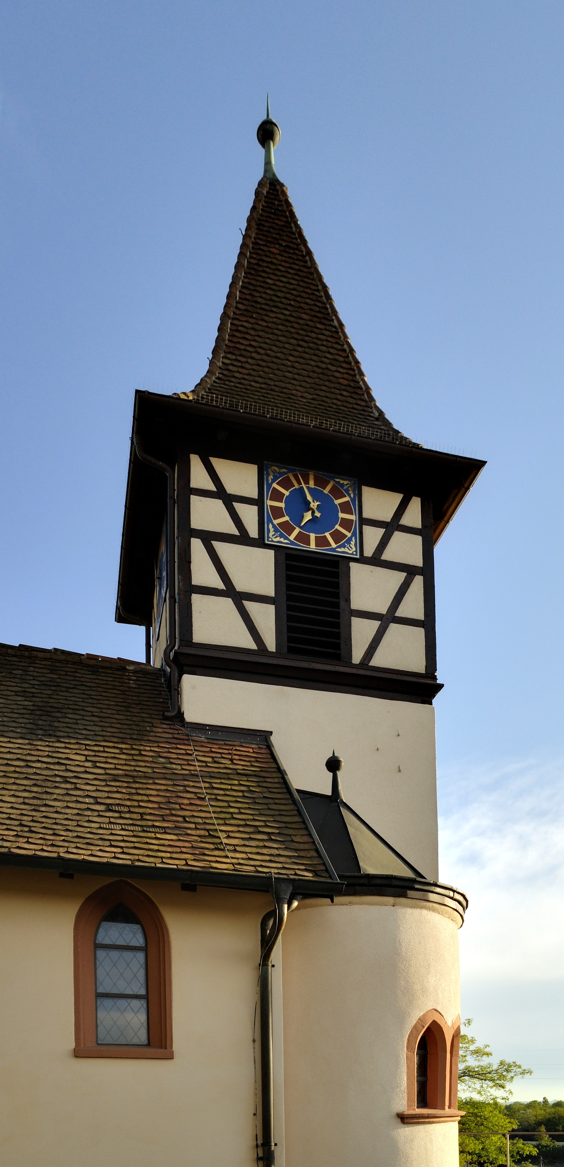 Kleinkems: Protestant Church